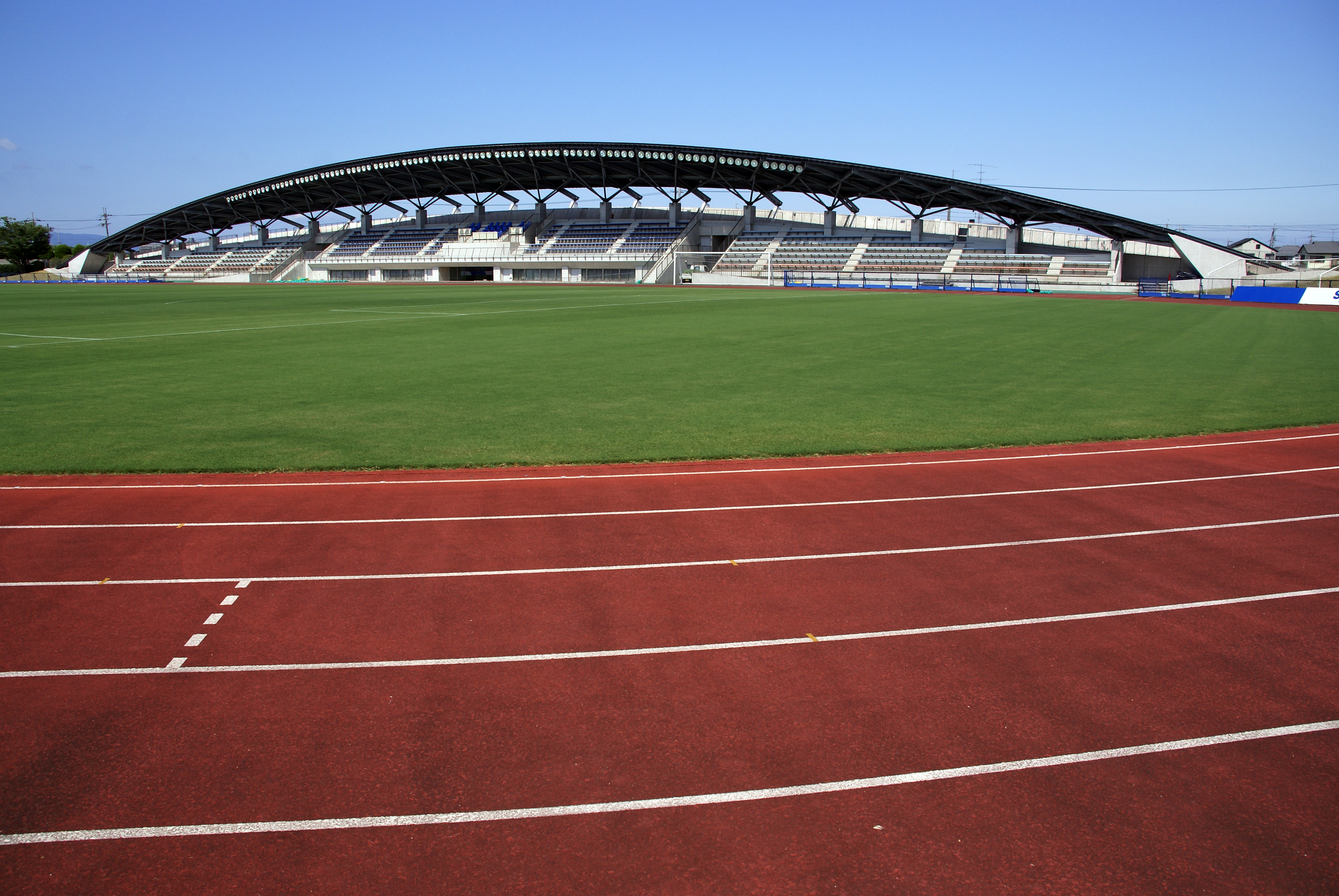 Sagawa Express Moriyama Playground in Moriyama, Shiga prefecture, Japan